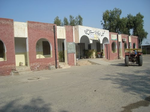 A front of THQ Hospital Mankera, Bhakkar